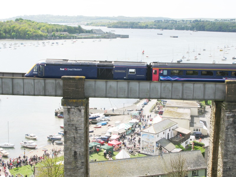 First Great Western 43165 passes across the Royal Albert Bridge out of Cornwall during a weekend of celebrations to mark the 150th anniversary of the bridge's opening. The view is looking south down the River Tamar towards Bull Point.